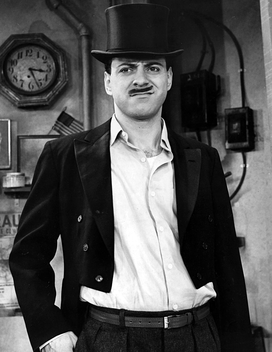 Still photo of Alan Arkin in Broadway play, Enter Laughing.